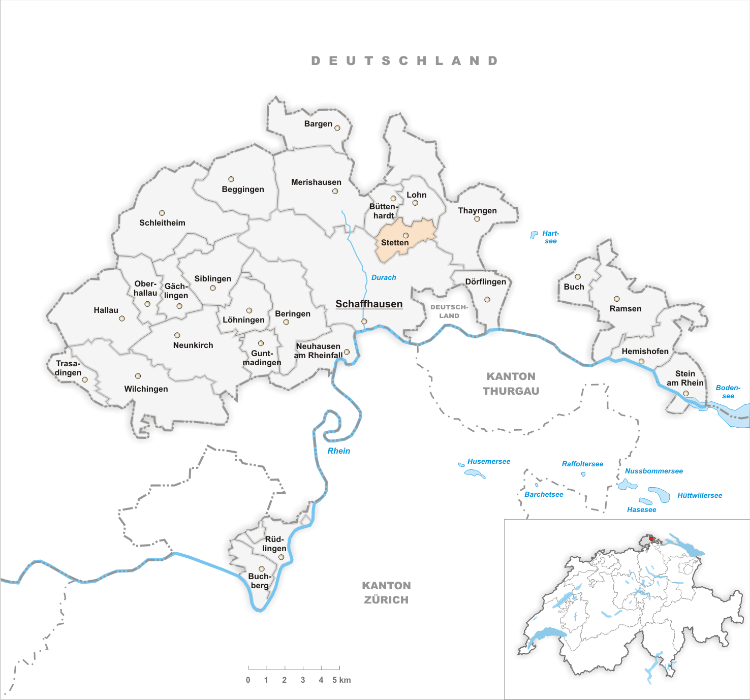 Municipality Stetten